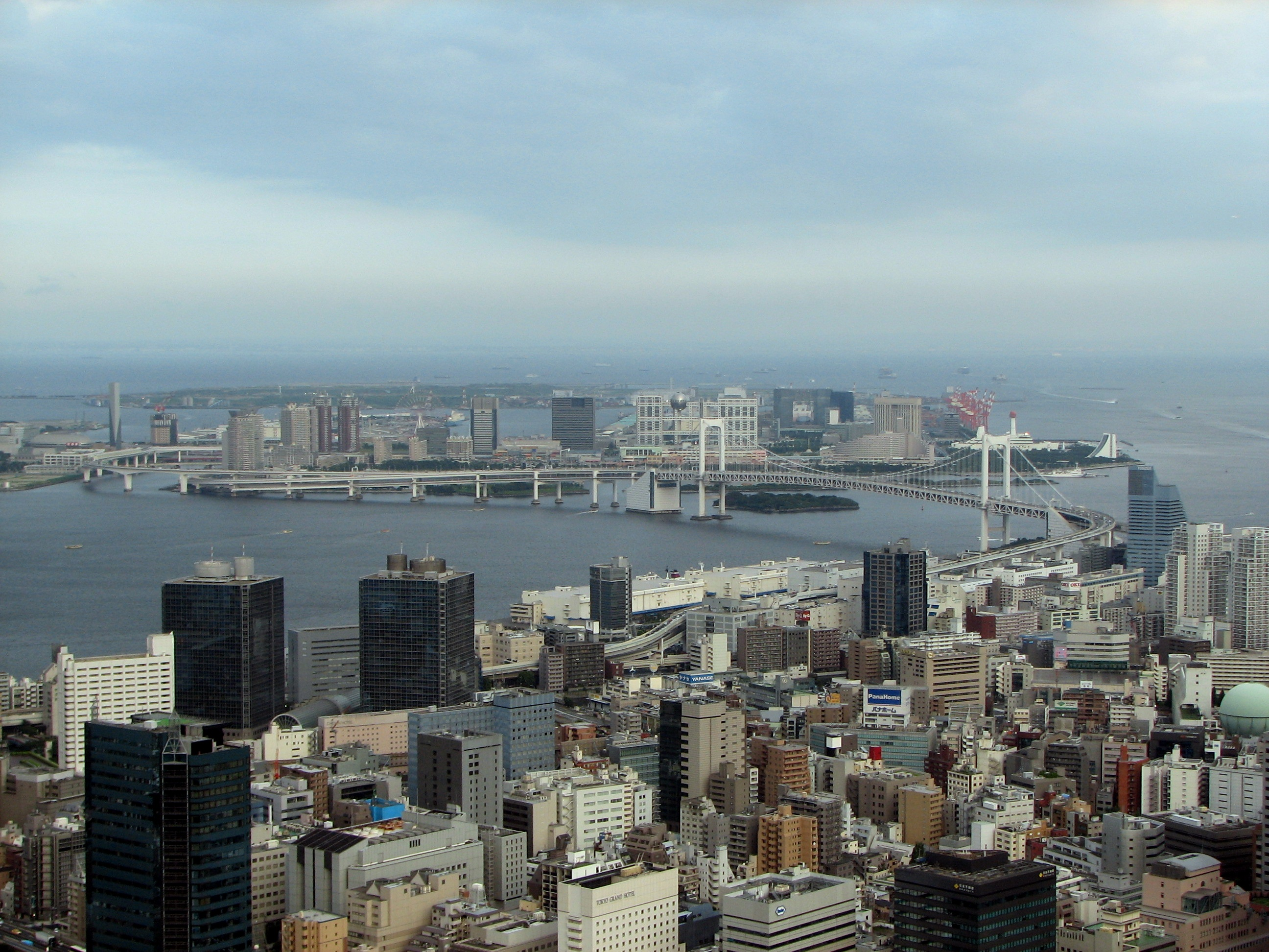 Odaiba and the Raibow Bridge by day. View from Tokyo Tower.